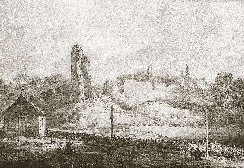 Drawing. Medininkai Castle in Lithuania